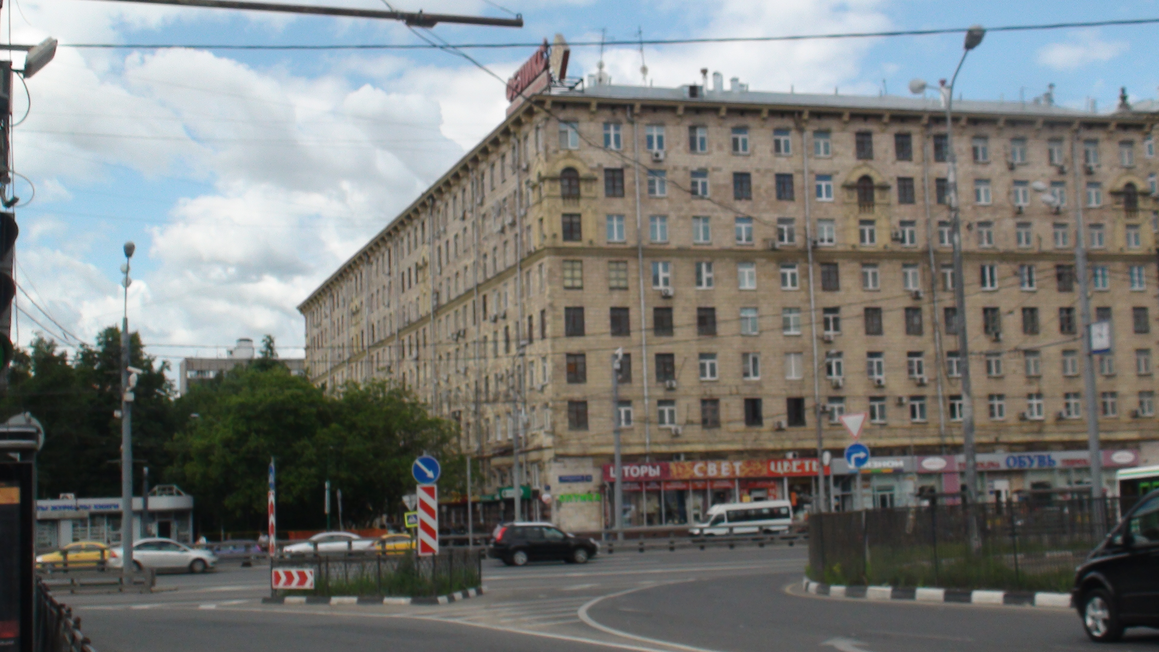 3-й Войковский проезд